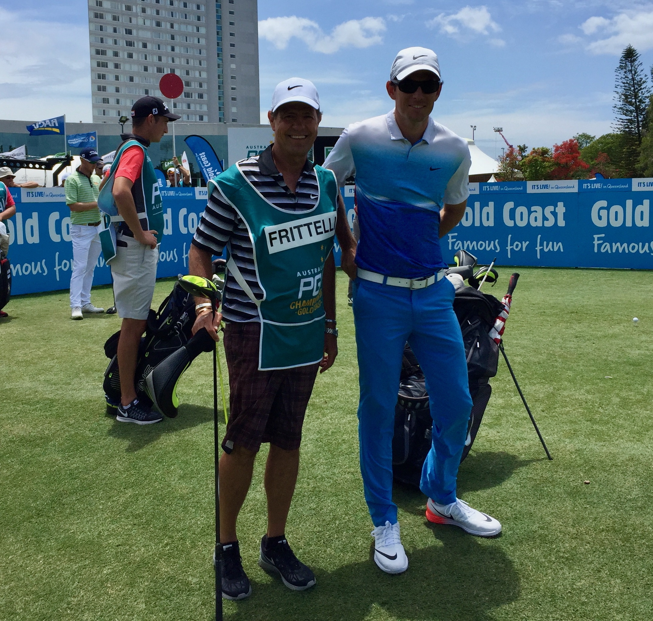 Dylan Fritelli and caddie his uncle Greg Frittelli at Australian PGA golf Championship 2015 - Royal Pines Resort Gold Coast 3rd December 2015